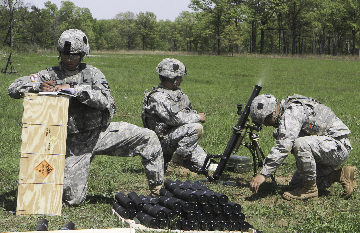 Mortarmen with Headquarters and Headquarters Company, 2nd Battalion, 502nd Infantry Regiment, 2nd Brigade Combat Team, 101st Airborne Division (Air Assault) exercise their employment and engagement skills with the M224A1 60 mm mortar system at a validation range.